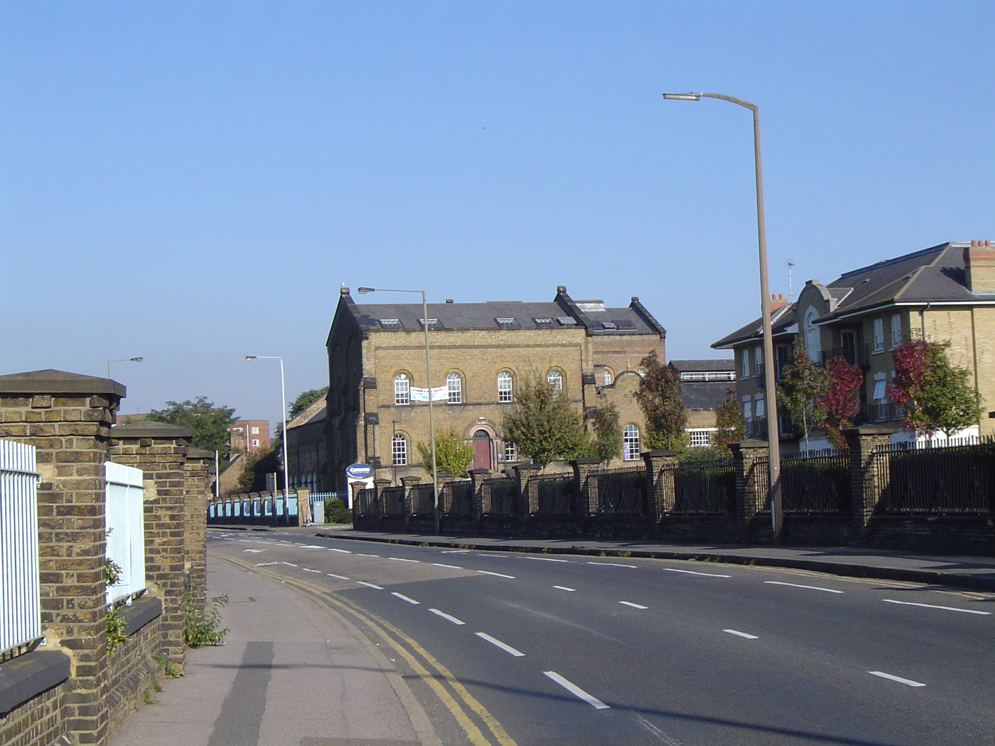 Seething Wells Surbiton - Old Waterworks buildings, as seen from the A307 Portsmouth Road.